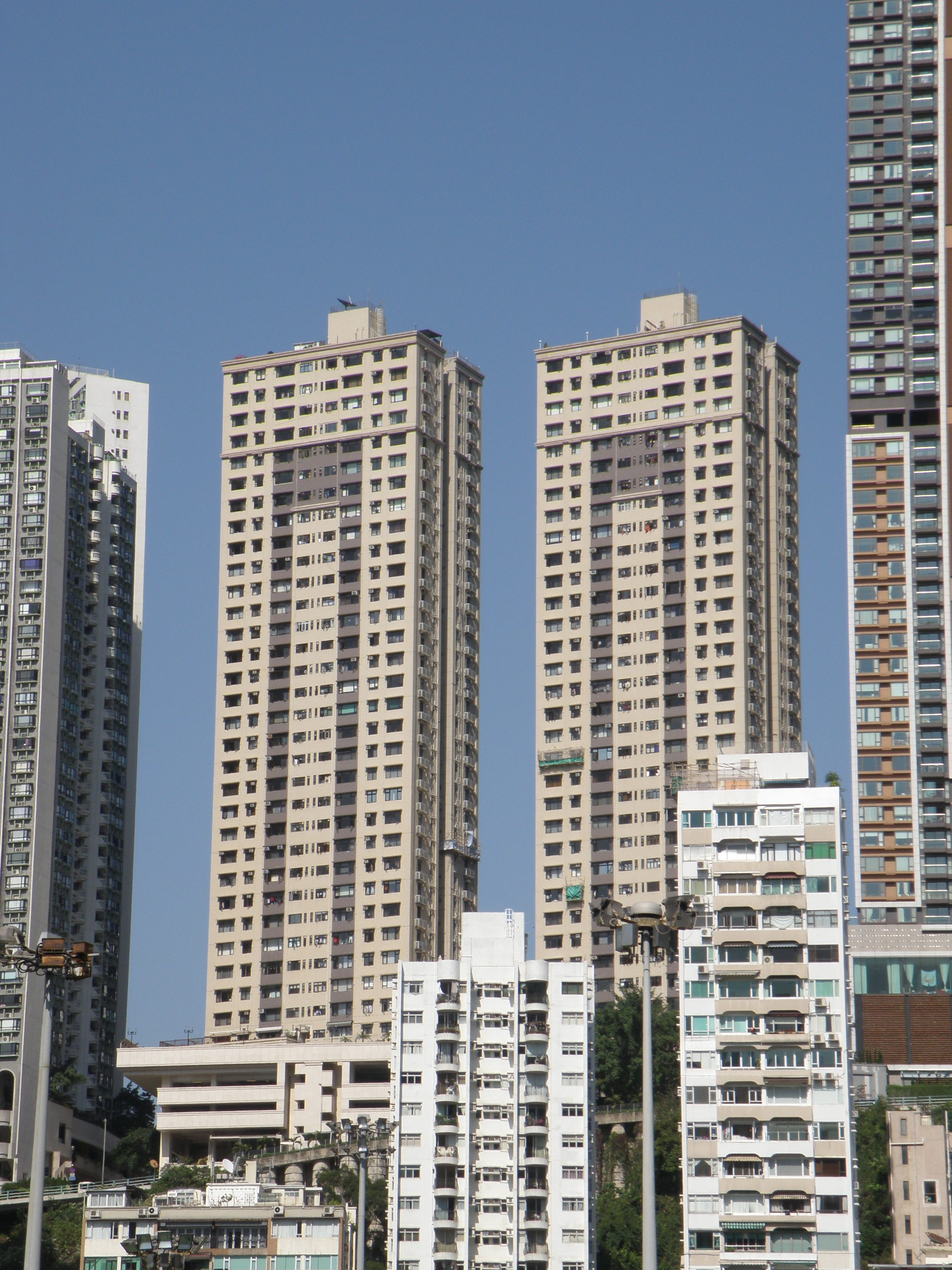 Villa Rocha in Happy Valley, Hong Kong.